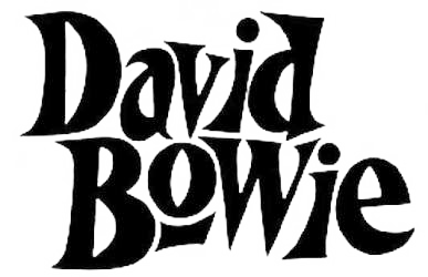 David Bowie Logo (First Album)